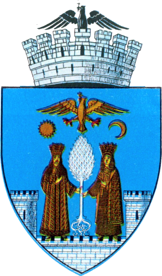 Coat of Arm of Targoviste, Romania.